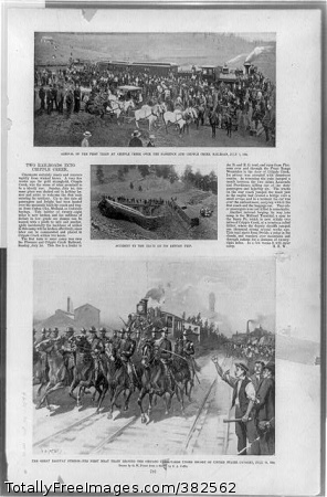 The Florence and Cripple Creek Railroad